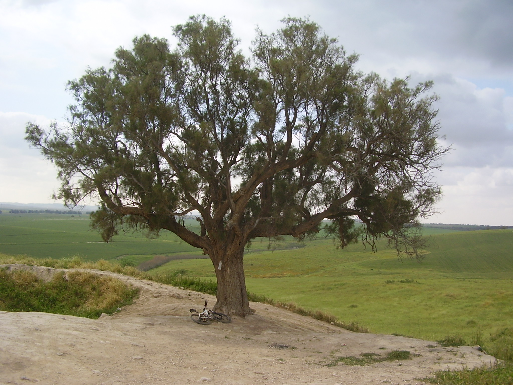 Tamarix tree on Tel Nagila